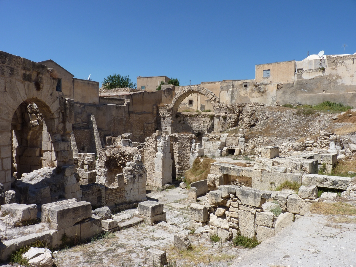 Excavation of Roman bath in Sicca Veneria, todays El Kef